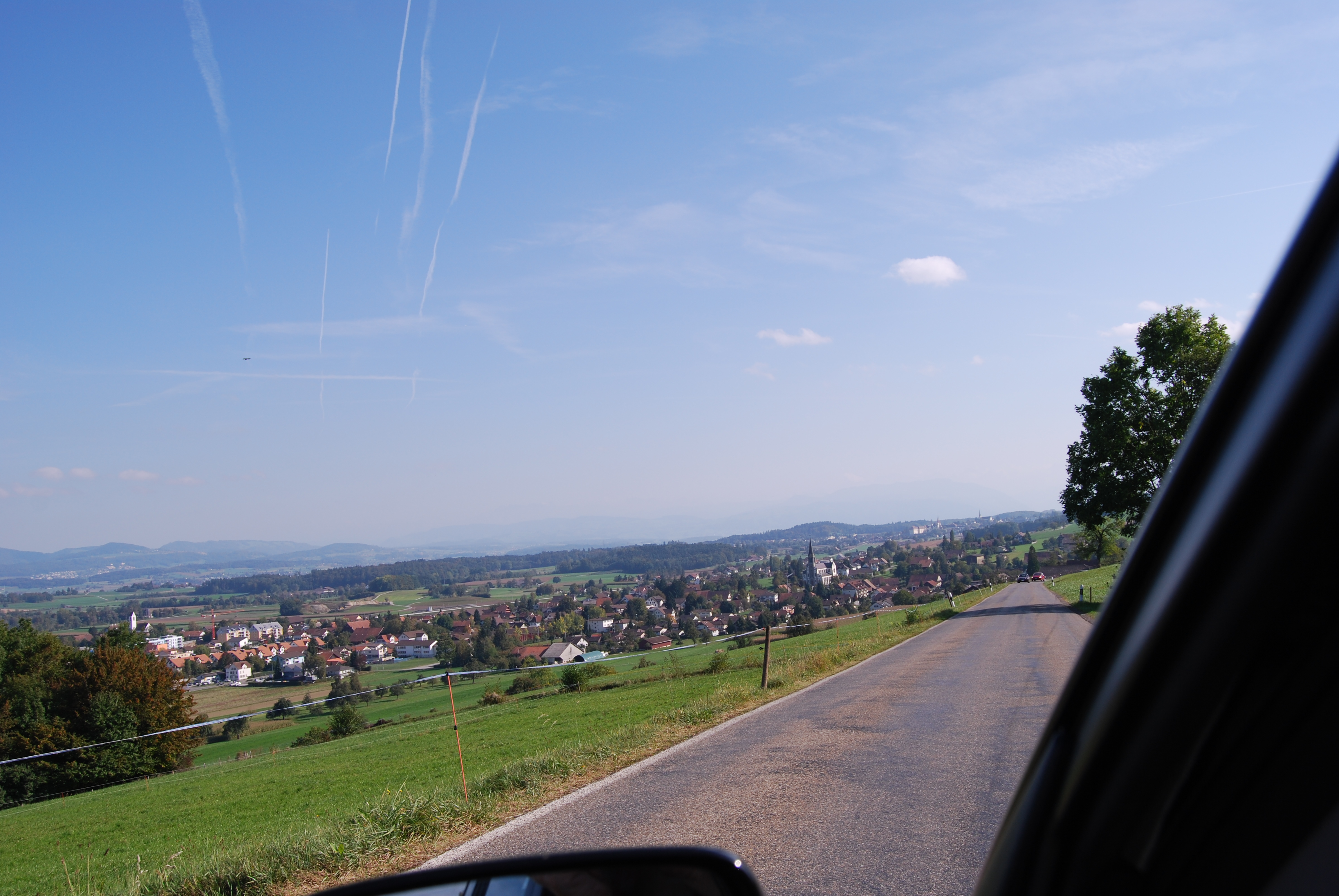 Panoramic view of Boswil, canton of Aargau, SwitzerlandEsperanto: Panorama vido de Boswil, Kantono Argovio, Svislando